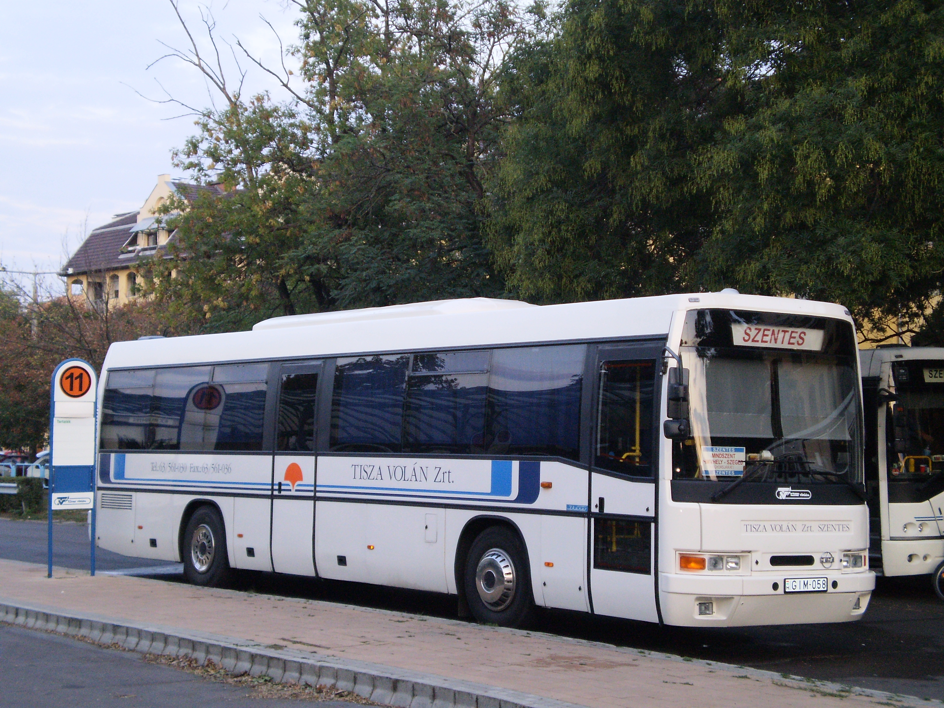 Tisza Volán Ikarus E95 bus in Szentes, Hungary